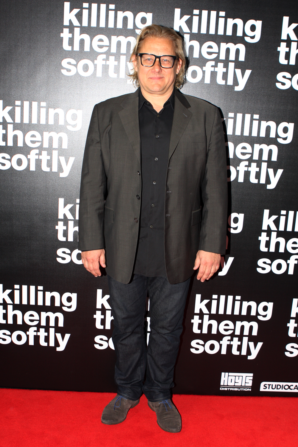 Kriv Stenders at the Killing Them Softly movie premiere at Dendy Opera Quays